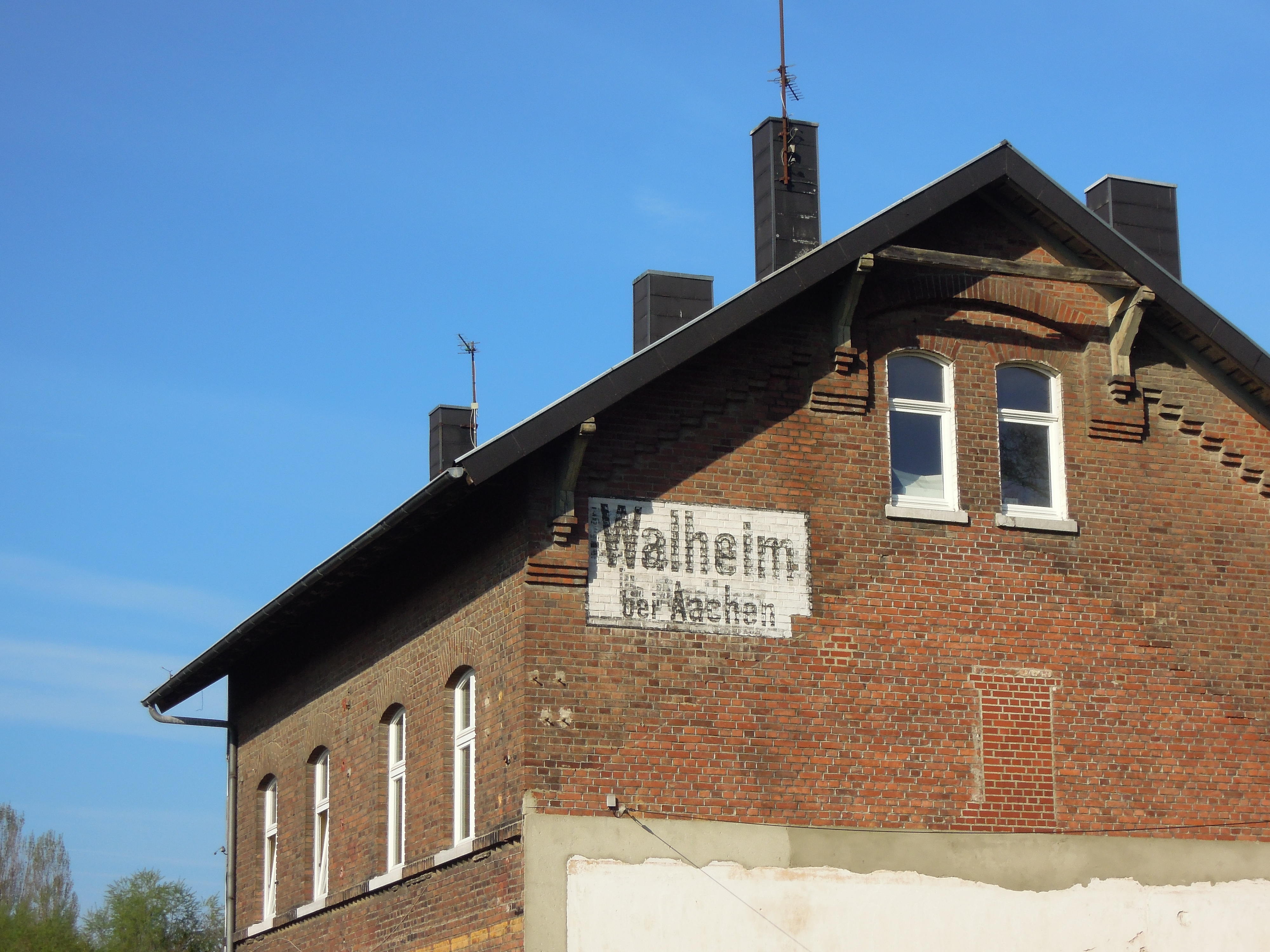 Heritage railway station Walheim in May 2015.